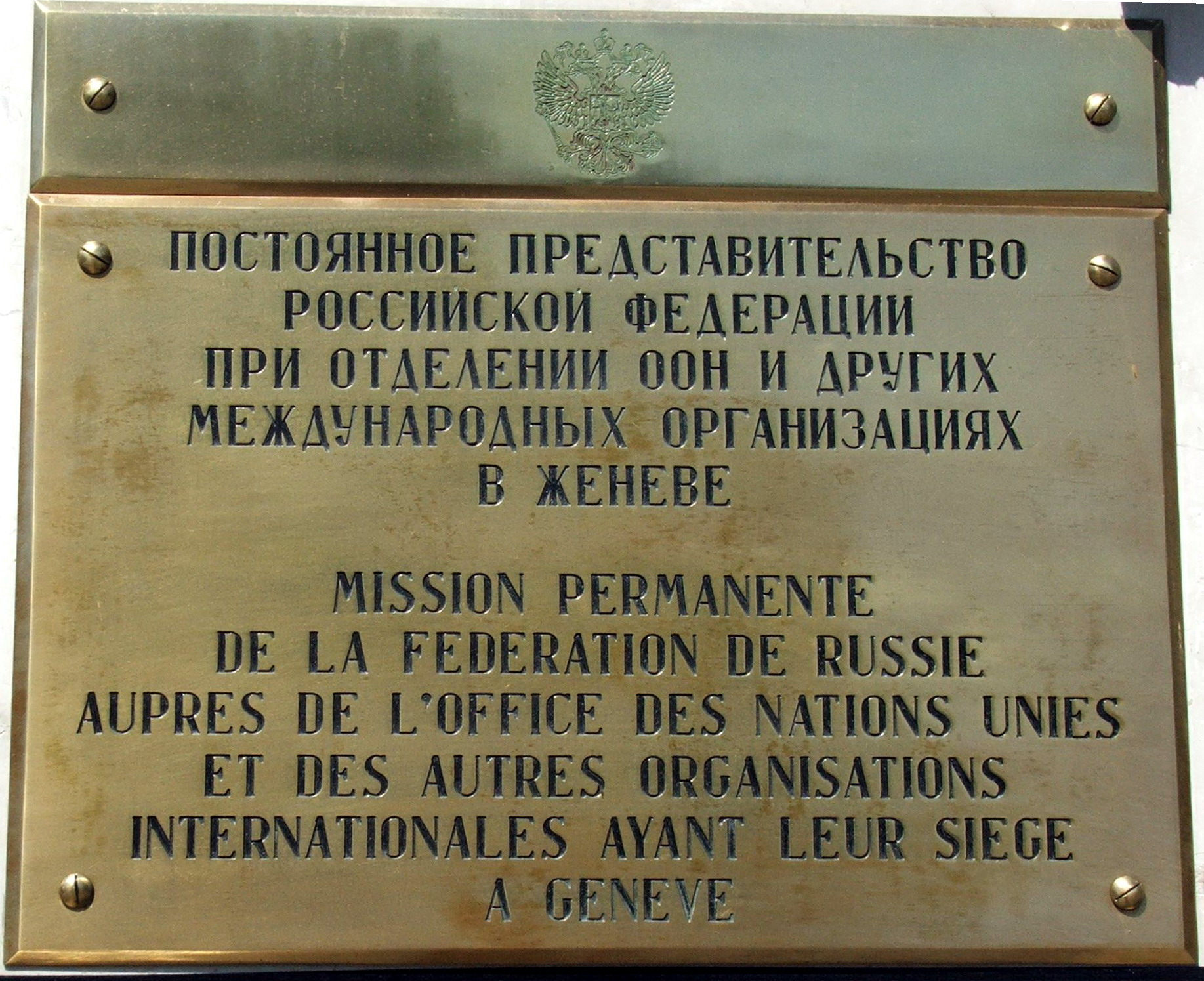 Coat of arms of Russia on the plaque of Permanent Mission of Russia to the UN in Geneva.